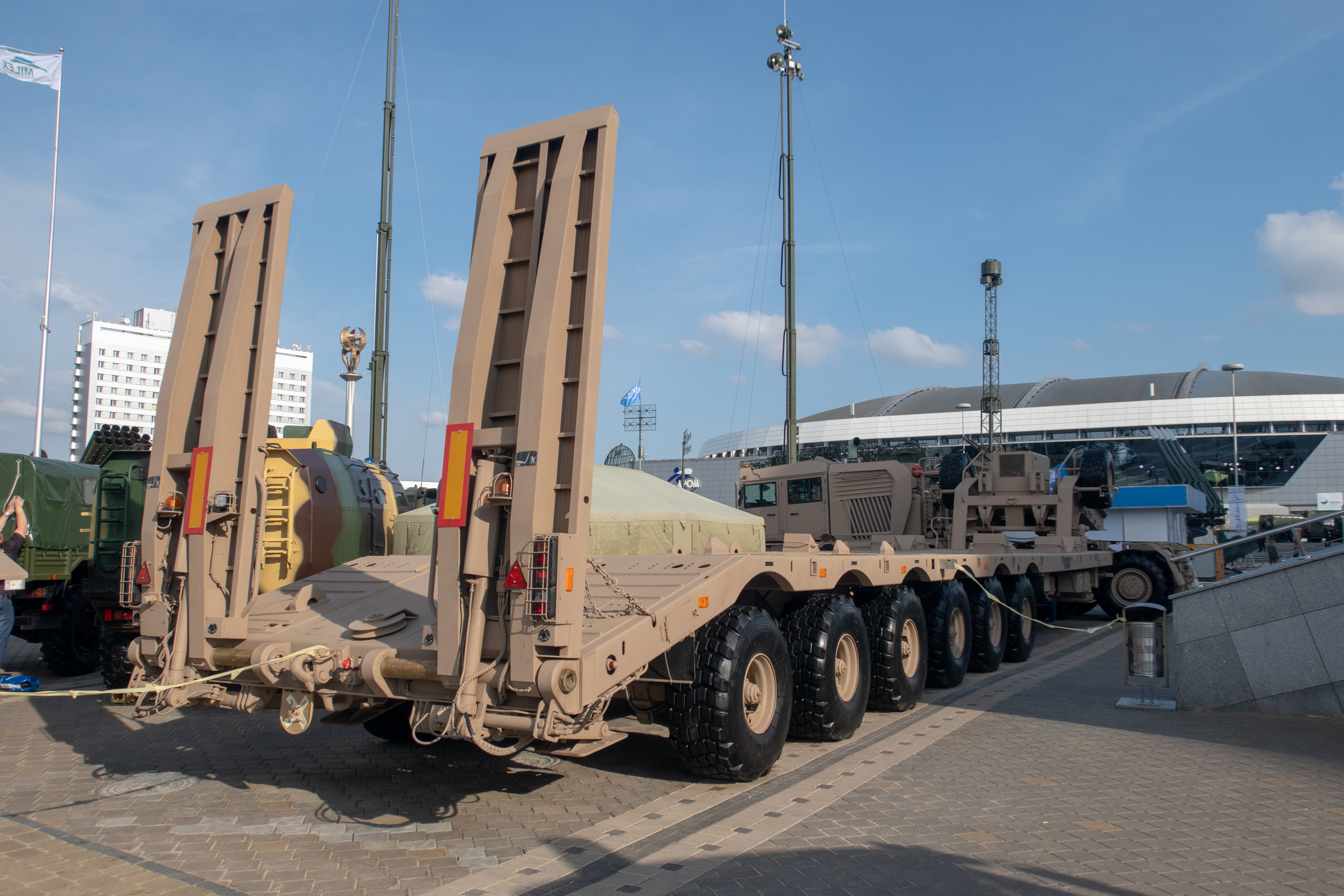 First trailer MZKT-999421 of the Belarusian tank transporter MZKT-741351